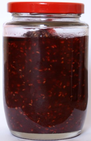 Homemade raspberry jam.